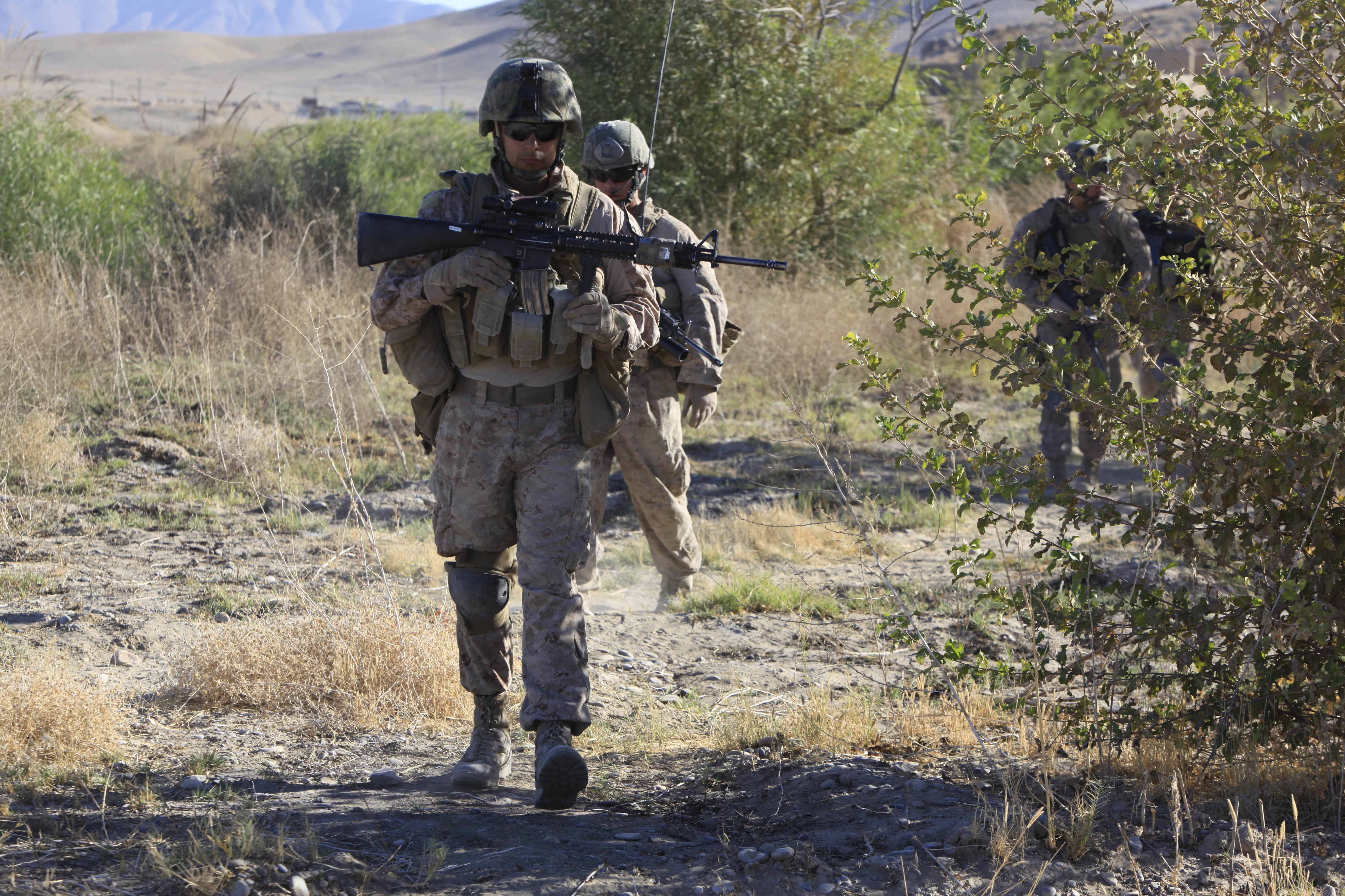 U.S. Marines with 3rd Squad, 2nd Platoon, India Company, 3rd Battalion, 12th Marine Regiment patrol in Kajaki, Afghanistan, on Oct. 22, 2010. The Marines patrolled the area to deter the placement of improvised explosive devices.